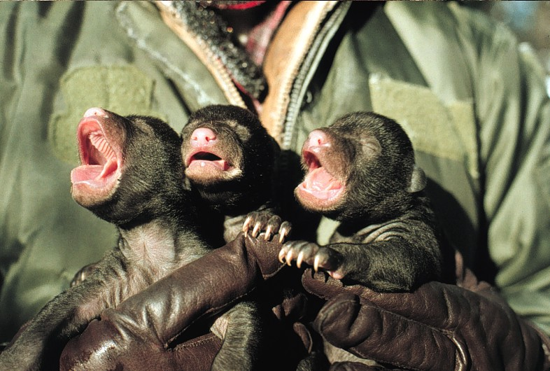 American black bear (Ursus americanus)